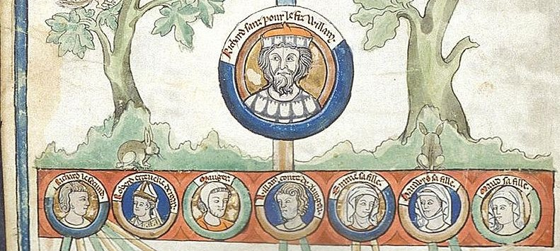 Richard & his children